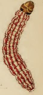 Stainton’s Natural History of the Tineina (1855–1873): Aroga flavicomella